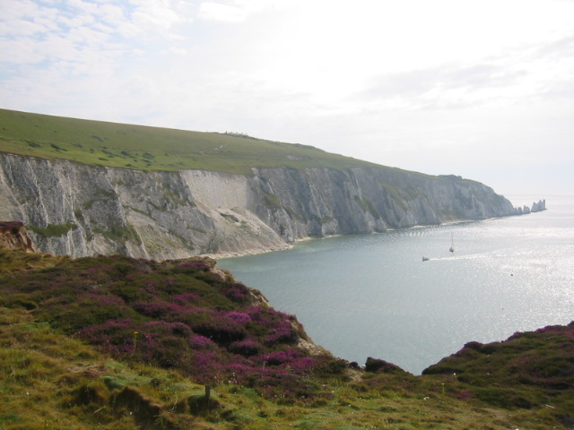 The Needles chalk stacks (right) and Tennyson Down seen from Headon Warren, on the Isle of Wight, in England. Source: Jaakko Sakari Reinikainen (ulayiti)